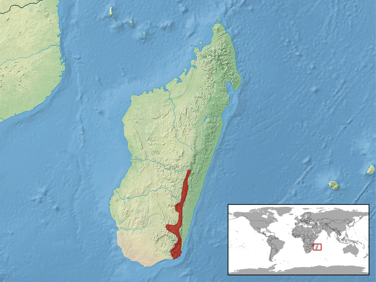 geographic distribution of Brookesia nasus (Native: Madagascar)